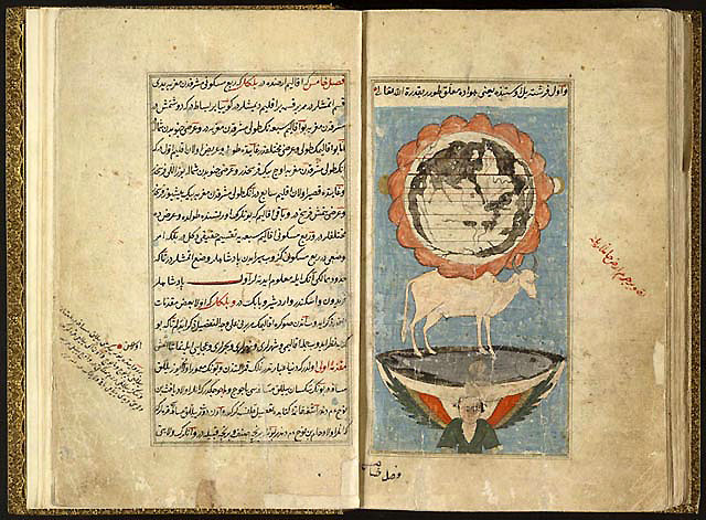 A manuscript copied in 14th century.